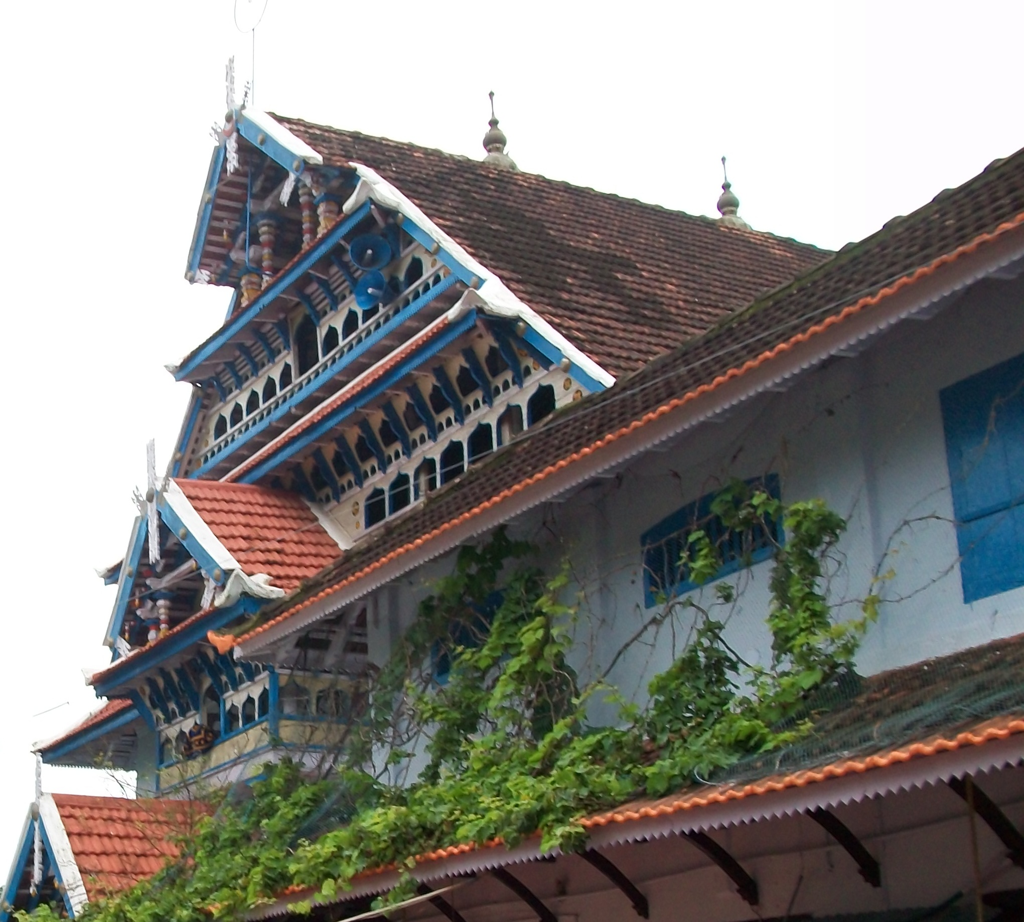 Ponnani Juma Masjid